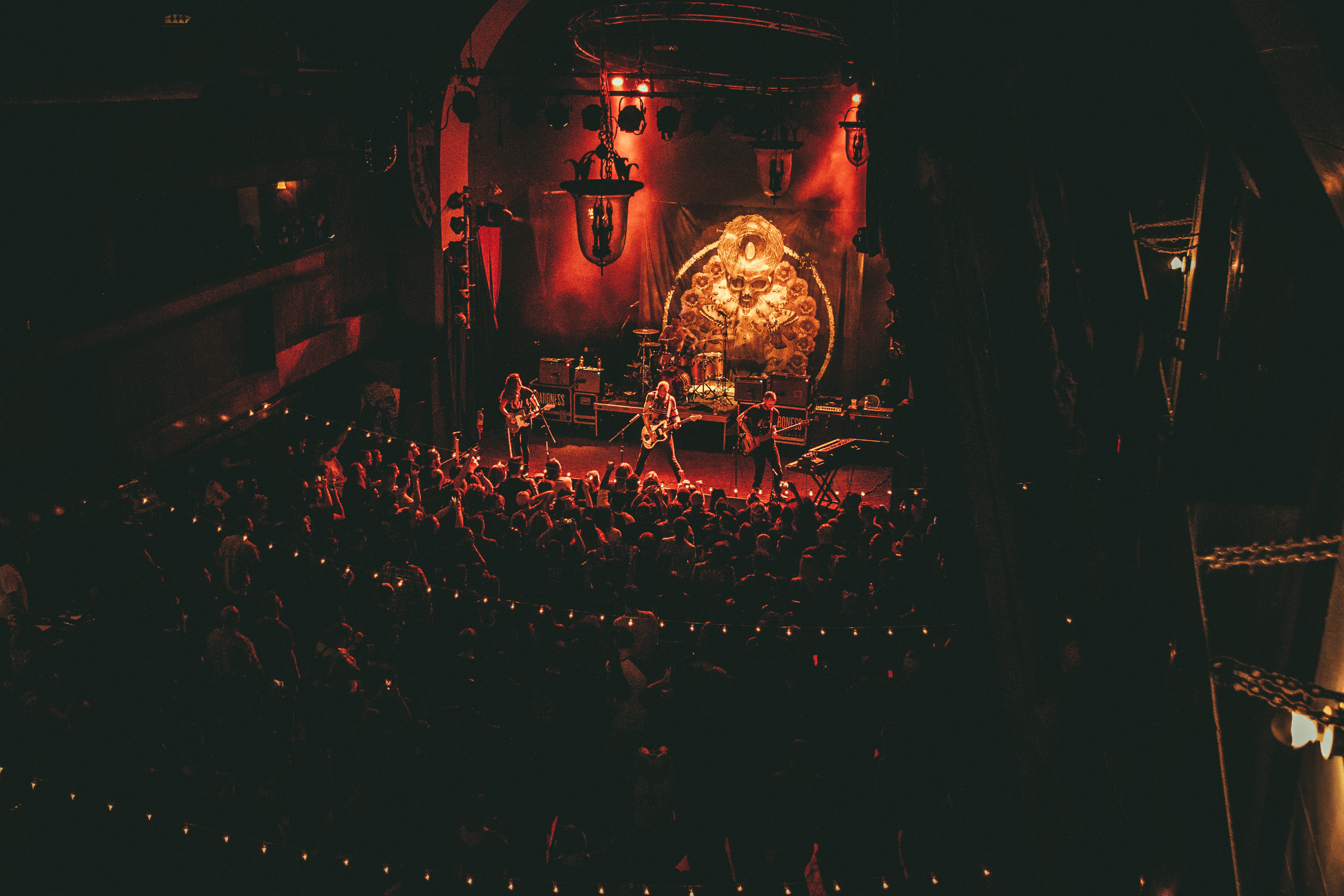 Baroness live at Mr. Smalls, by Nick Prezioso